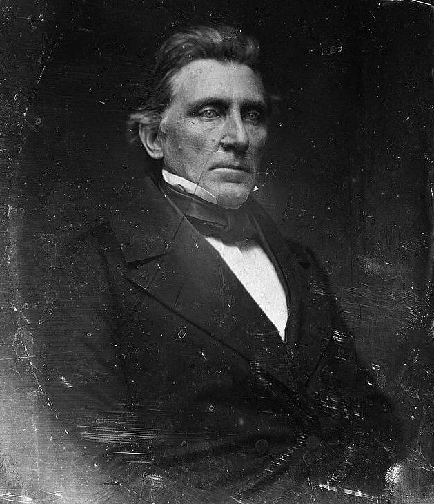 William M. Gwin, half-length portrait, three-quarters to the right